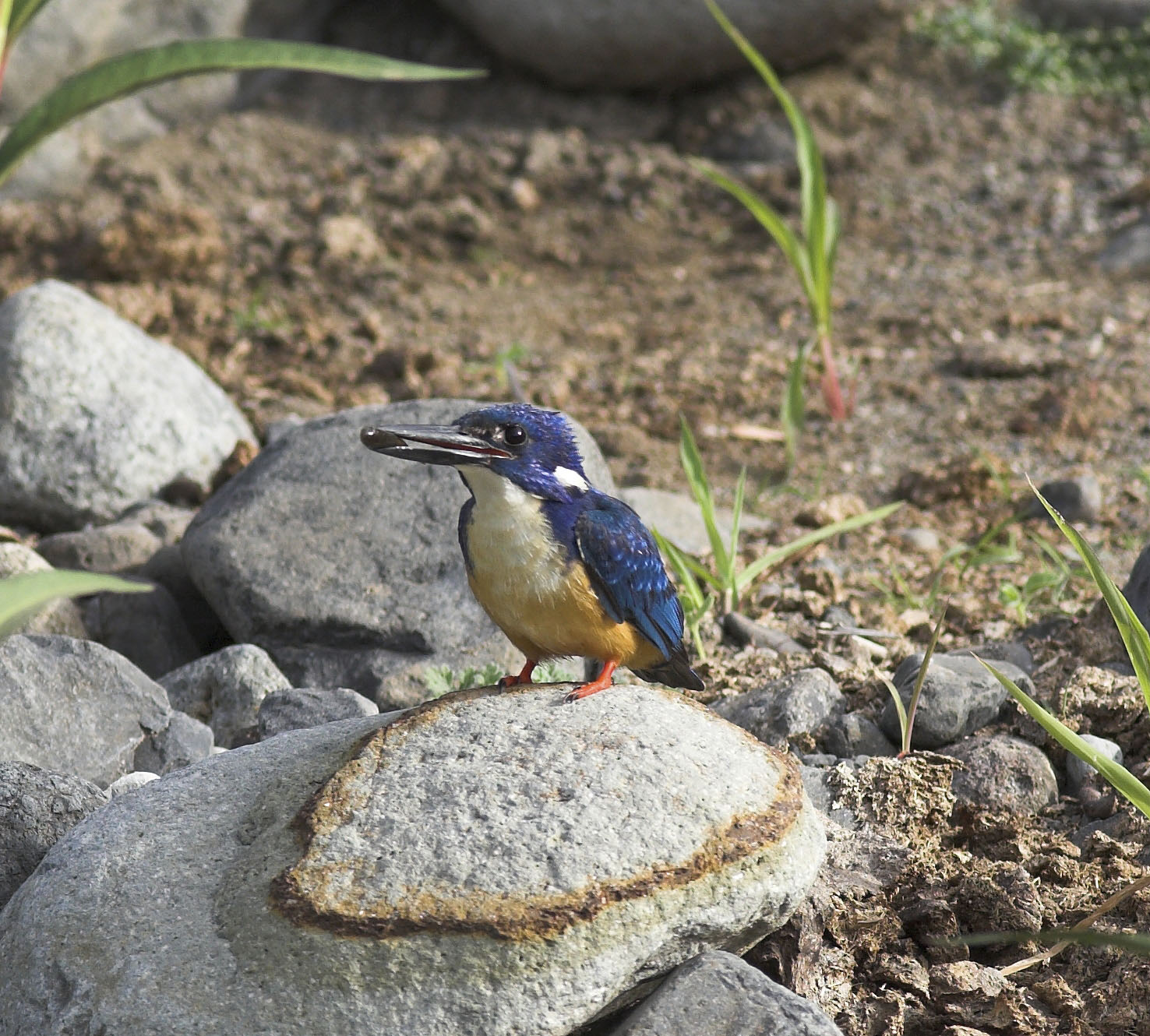 Half-collared Kingfisher